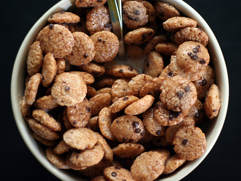 Cookie Crisp Cereal from above